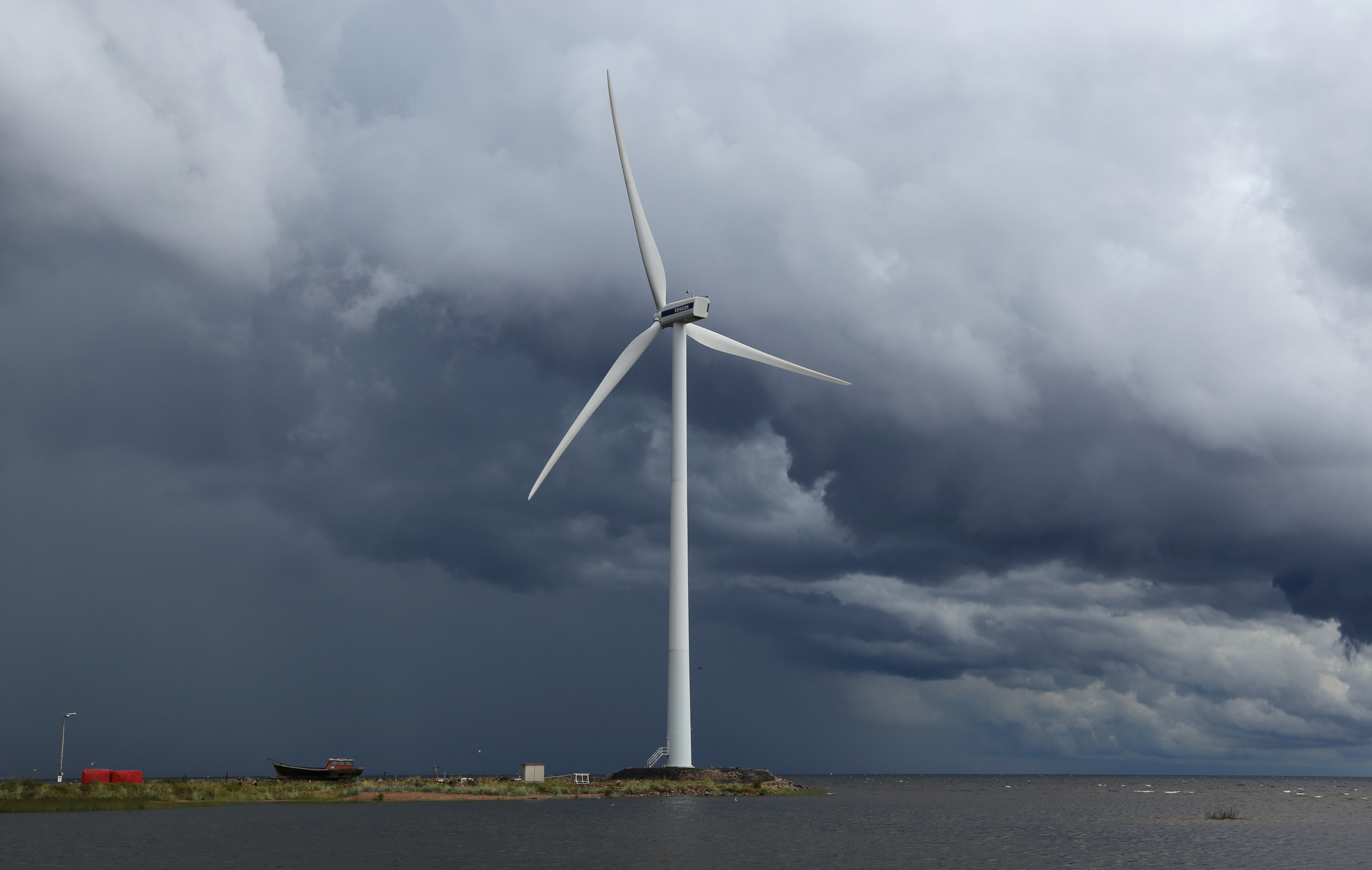 A wind turbine at Huikku, Hailuoto.